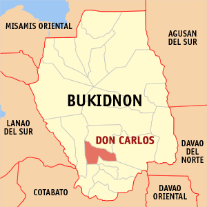 Map of the Bukidnon showing the location of Don Carlos